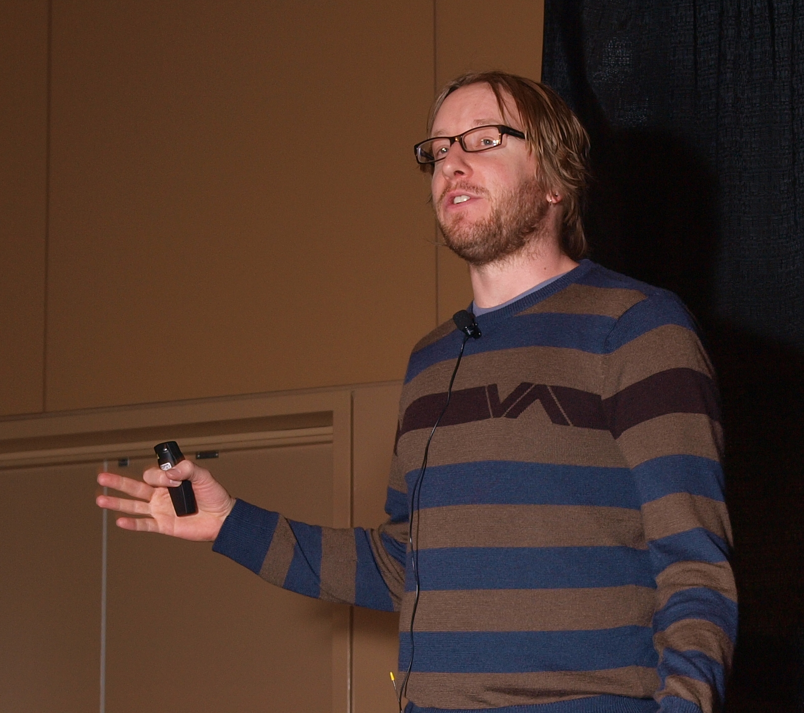 Randy Smith, at the Game Developers Conference in 2010 (third day), speaking at "Crushing the overhead: case study of a microstudio start-up".